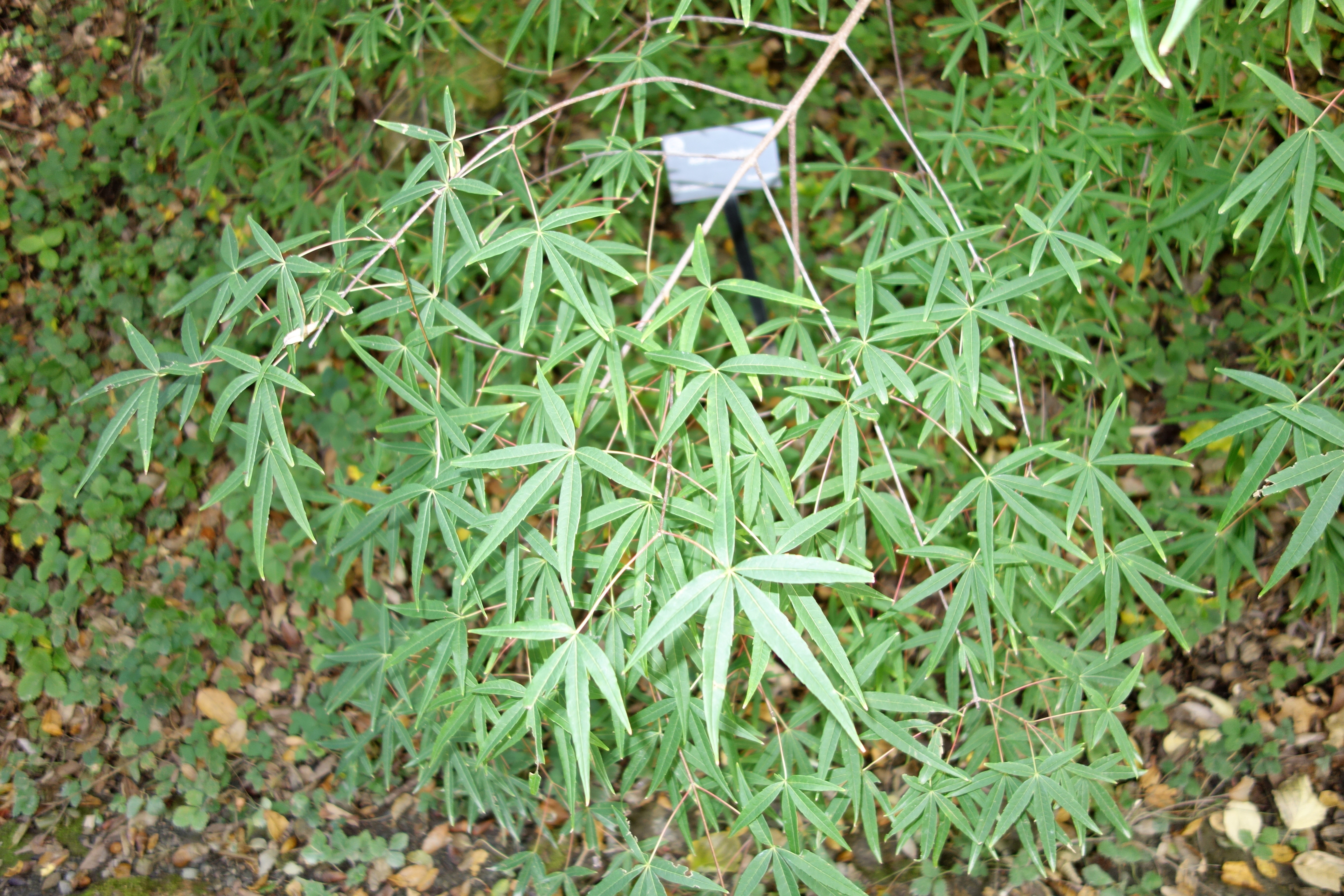 Botanical specimen in Quarryhill Botanical Garden, Glen Ellen, California, USA.